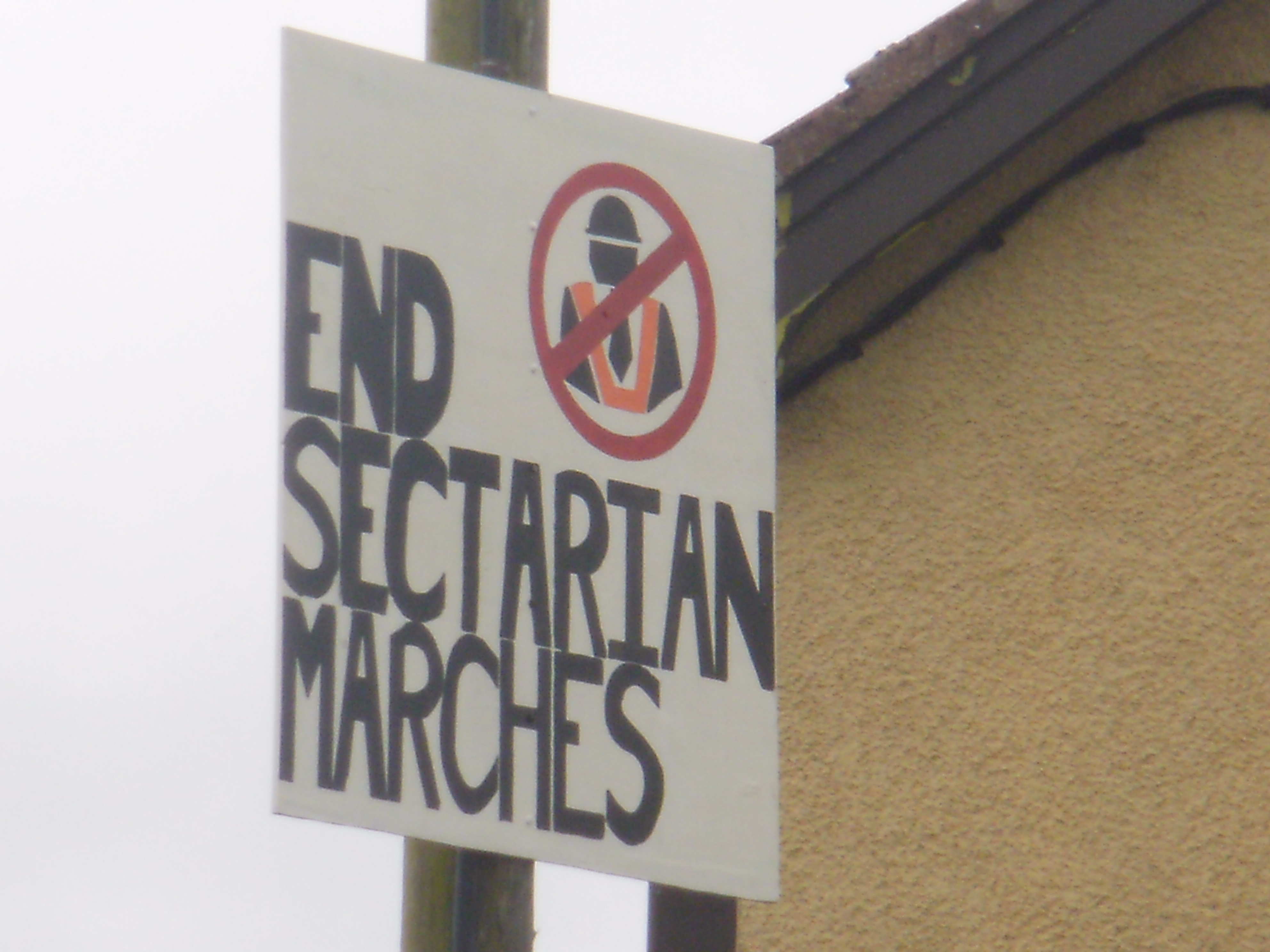 A sign showing oppostion to the Orange Order in Rasharkin,County Antrim,Northern Ireland.Rasharkin is an area where Orange Order marches are opposed.